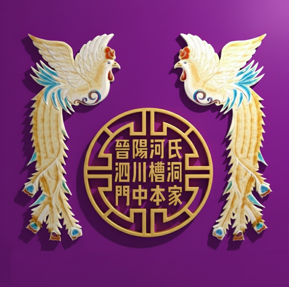 This is a logotype symbol of Ha family(SACHEON-JODONG family)